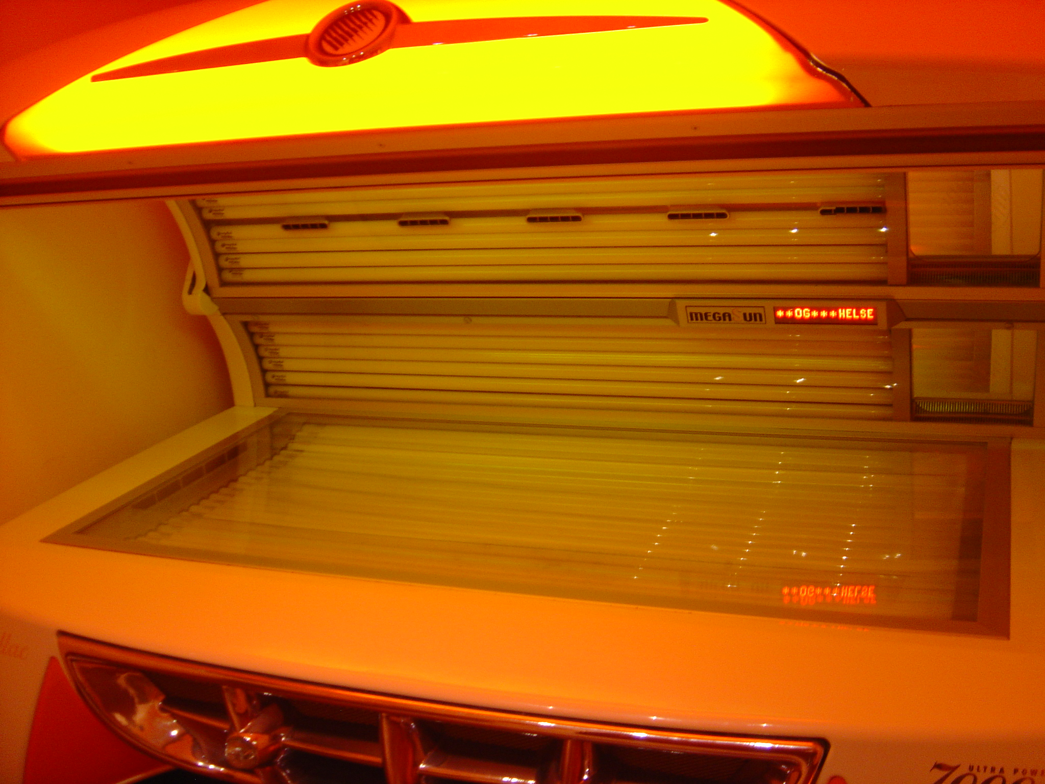 Tanning bed - an indoor Cadillac-stylized tanning bed produced by MegaSun.